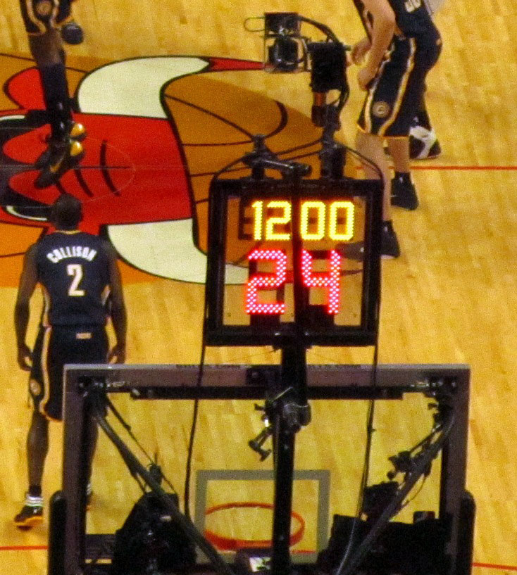 Jump ball before the Indiana Pacers/Chicago Bulls first playoff round game 1 in 2011.